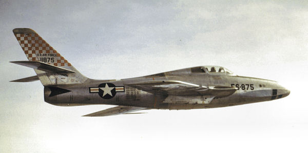 RF-84F of the 363d Tactical Recon Group - Shaw Air Force Base, SC.